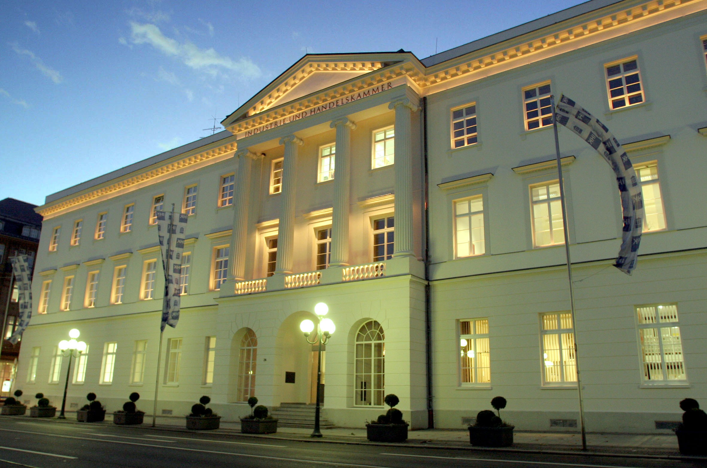 The picture shows the bulding of the Chamber of industry and commerce in Wiesbaden, Germany.